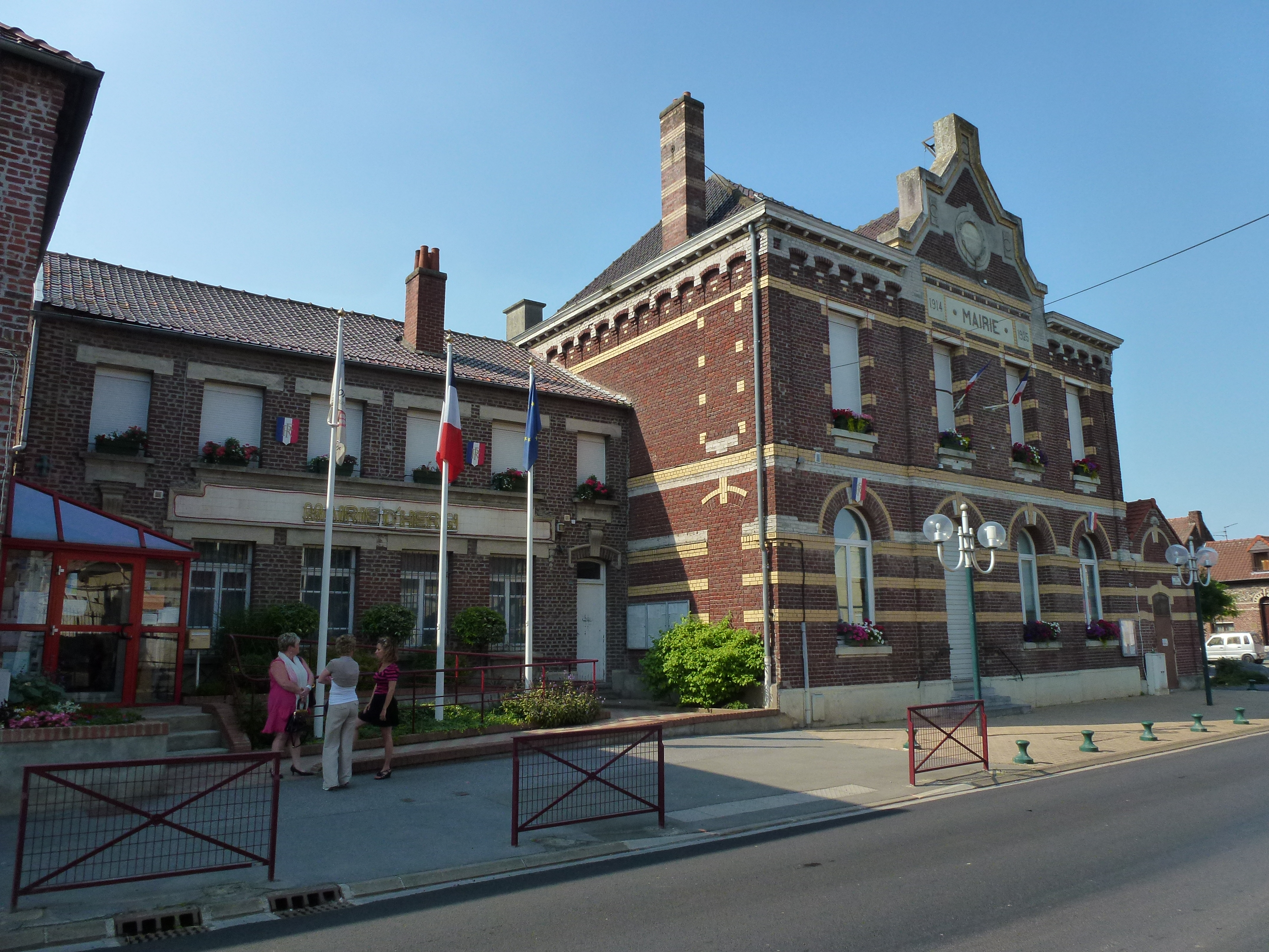 Hérin (Nord, Fr) mairie